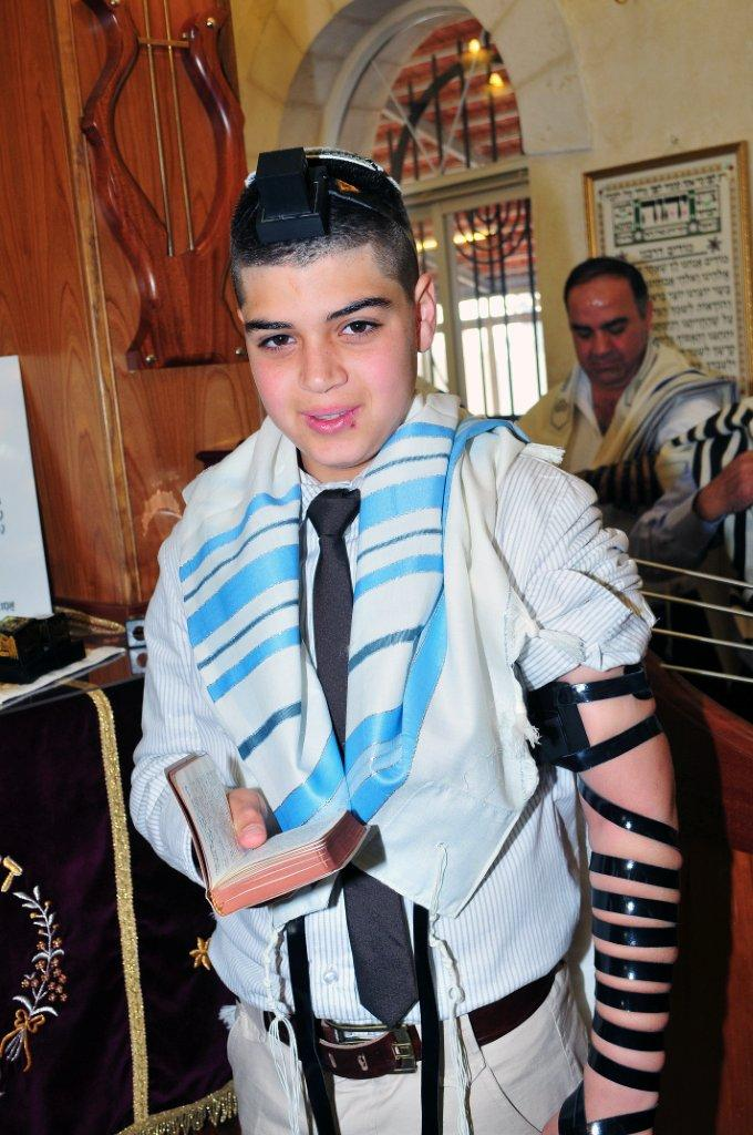 A bar mitzvah boy wearing talit and tefillin, Maoz Zion, Israel